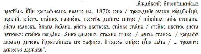 Donje Korminjane Assumption Church Inscription 1